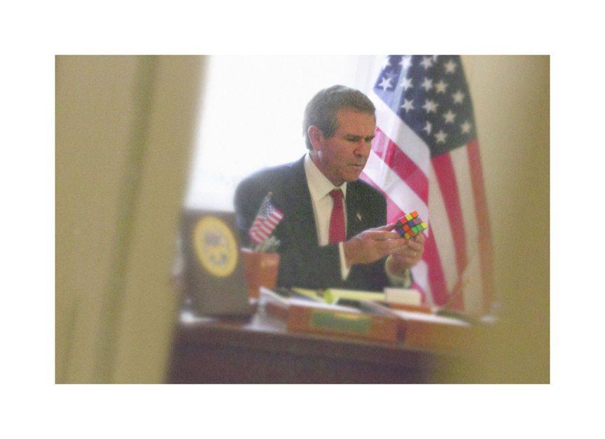 Bush Rubix Cube - work of Alison Jackson with look alike